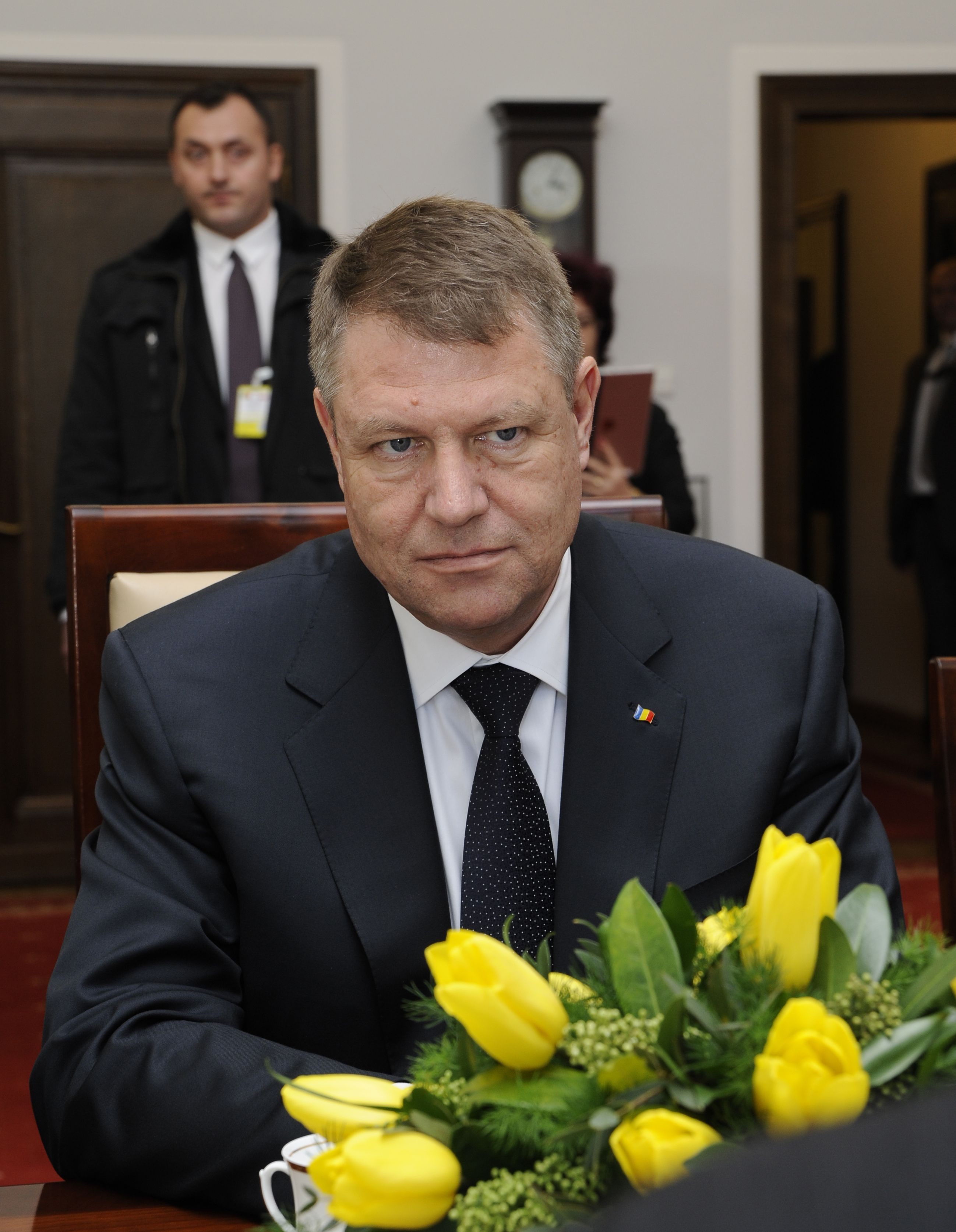 President of Romania Klaus Iohannis in the Polish Senate